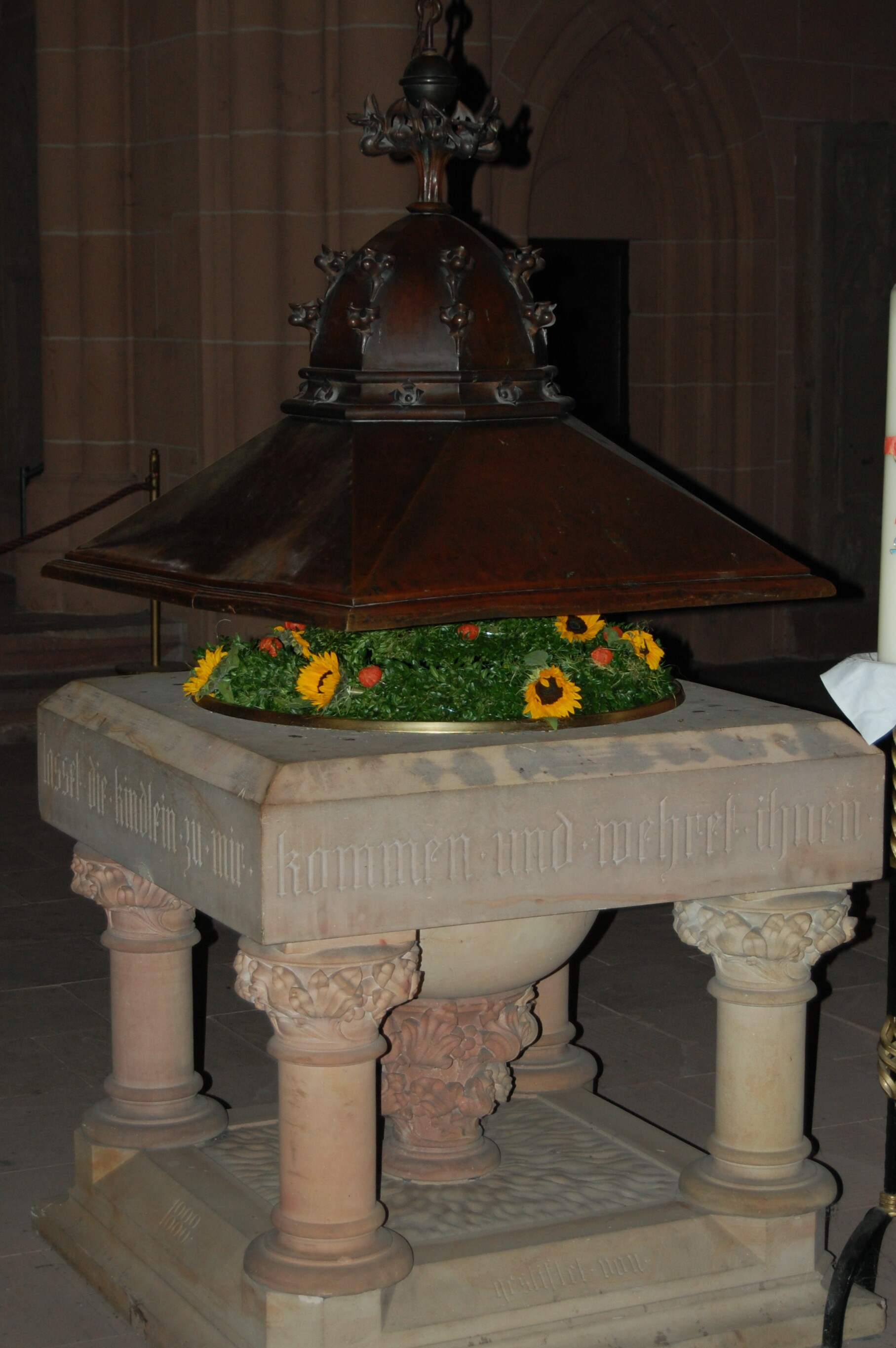 Font in the Katharinenchurch in Oppenheim